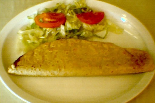 A huitlacoche quesadilla. Photo taken at HELICOPTER Mexican Restaurant, S Kedzie Ave at 42nd St, Chicago,IL USA.